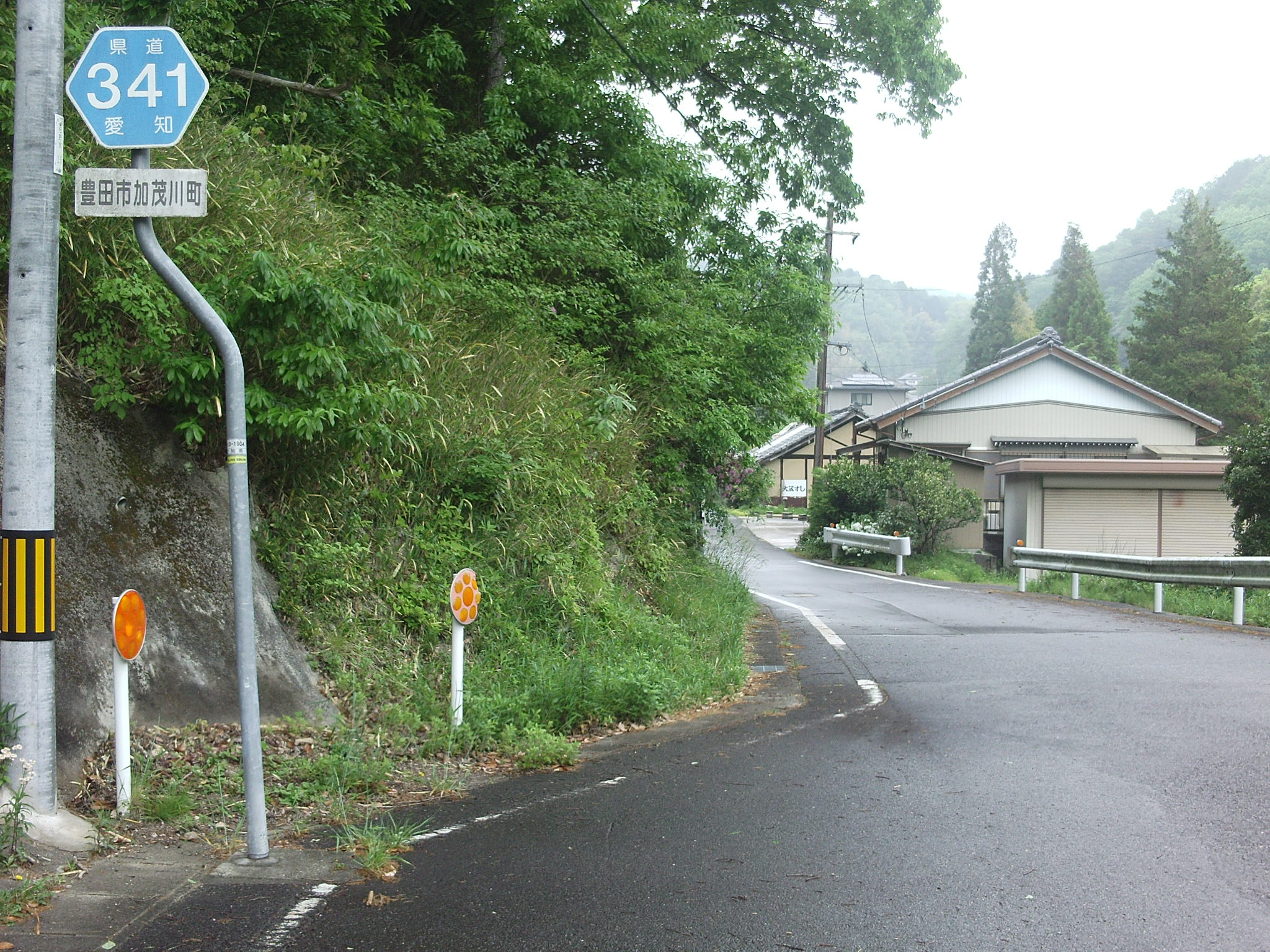 Aichi prefectural road No.341 in Kamogawacho, Toyota, Aichi.